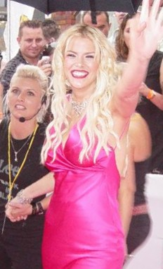 American actreess Anna Nicole Smith in the red carped for 2005 MTV Video Music Awards